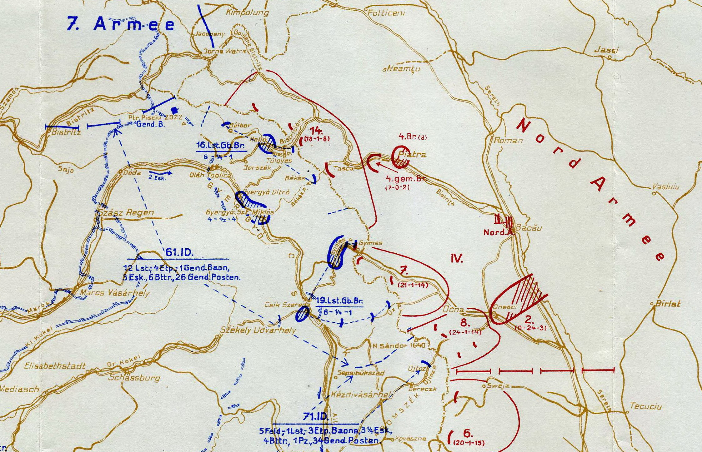 Situation of the Romanian troops belonging to the Northern Army in august 1916